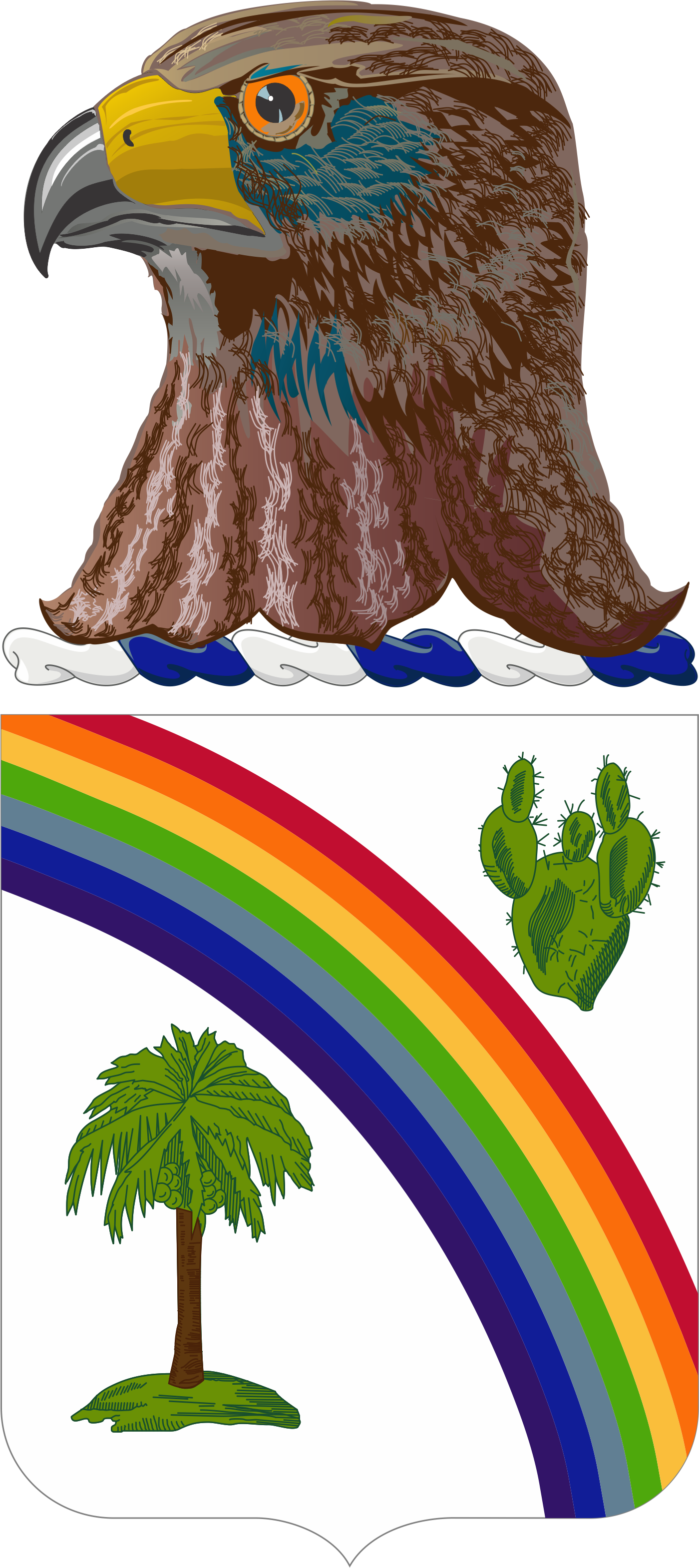 Description/Blazon Shield Argent, a bend archy in the colors of the rainbow (Gules, Or and Azure) between in chief a prickly pear cactus and in base a palm tree on a mound Proper. Crest The crest is that for the regiments and separate battalions of the Iowa Army National Guard: On a wreath Argent and Azure a hawk's head erased Proper. Motto ON GUARD. Symbolism Shield The shield is white, the old Infantry color. The bend archy in the form of a rainbow shows the service of the Regiment in World War I in the 42d Division. The cactus represents the Mexican Border service and the palm tree the Philippine service. Crest The crest is that of the Iowa Army National Guard. Background The coat of arms was approved on 28 July 1931.